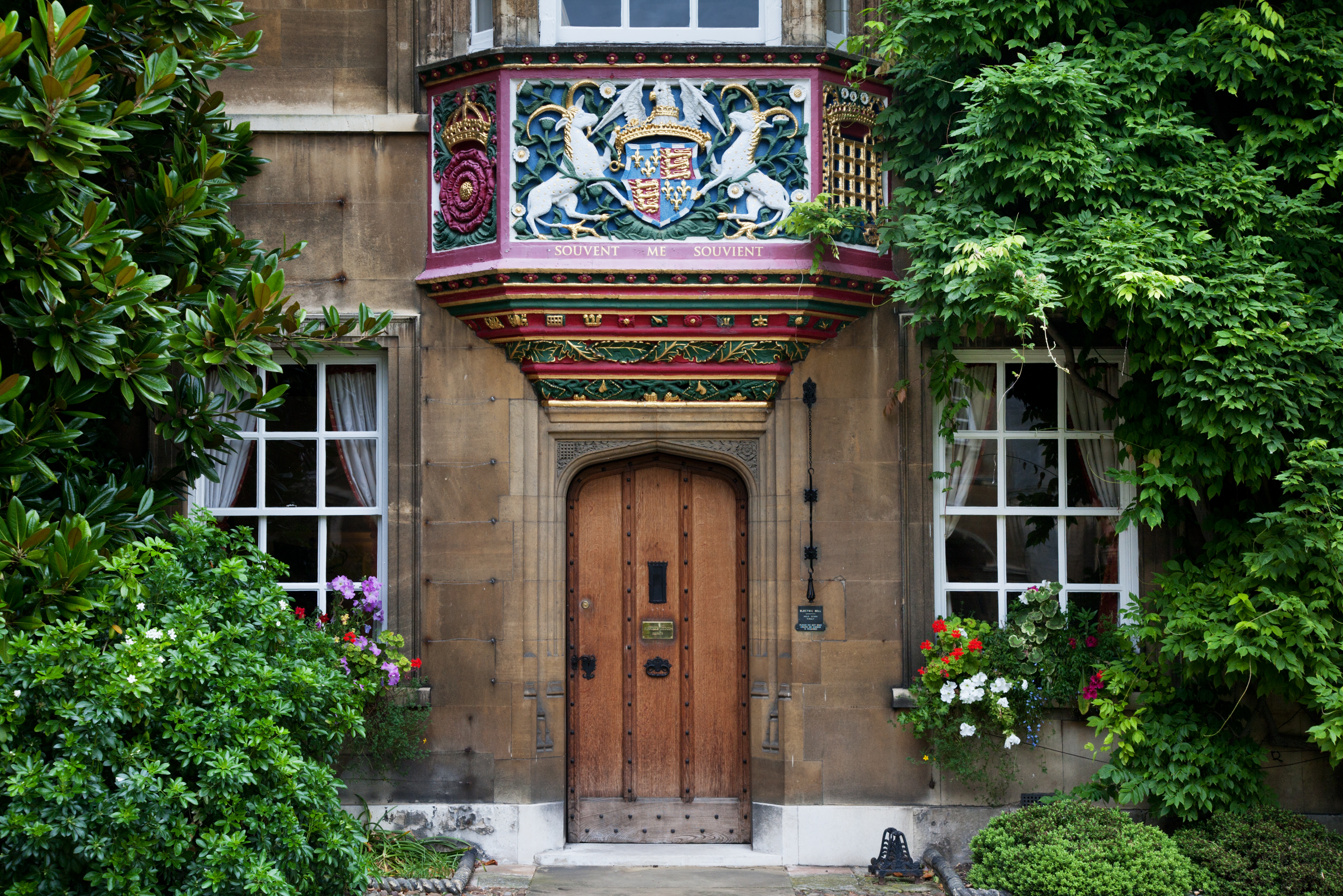 Christ's College, Cambridge, UK. Arms of Christ's College, Cambridge, being arms of Lady Margaret Beaufort, with Beaufort Yale supporters. With marguerite (daisy) emblems. Left: Red Rose of Lancaster; right: Beaufort Portcullis.